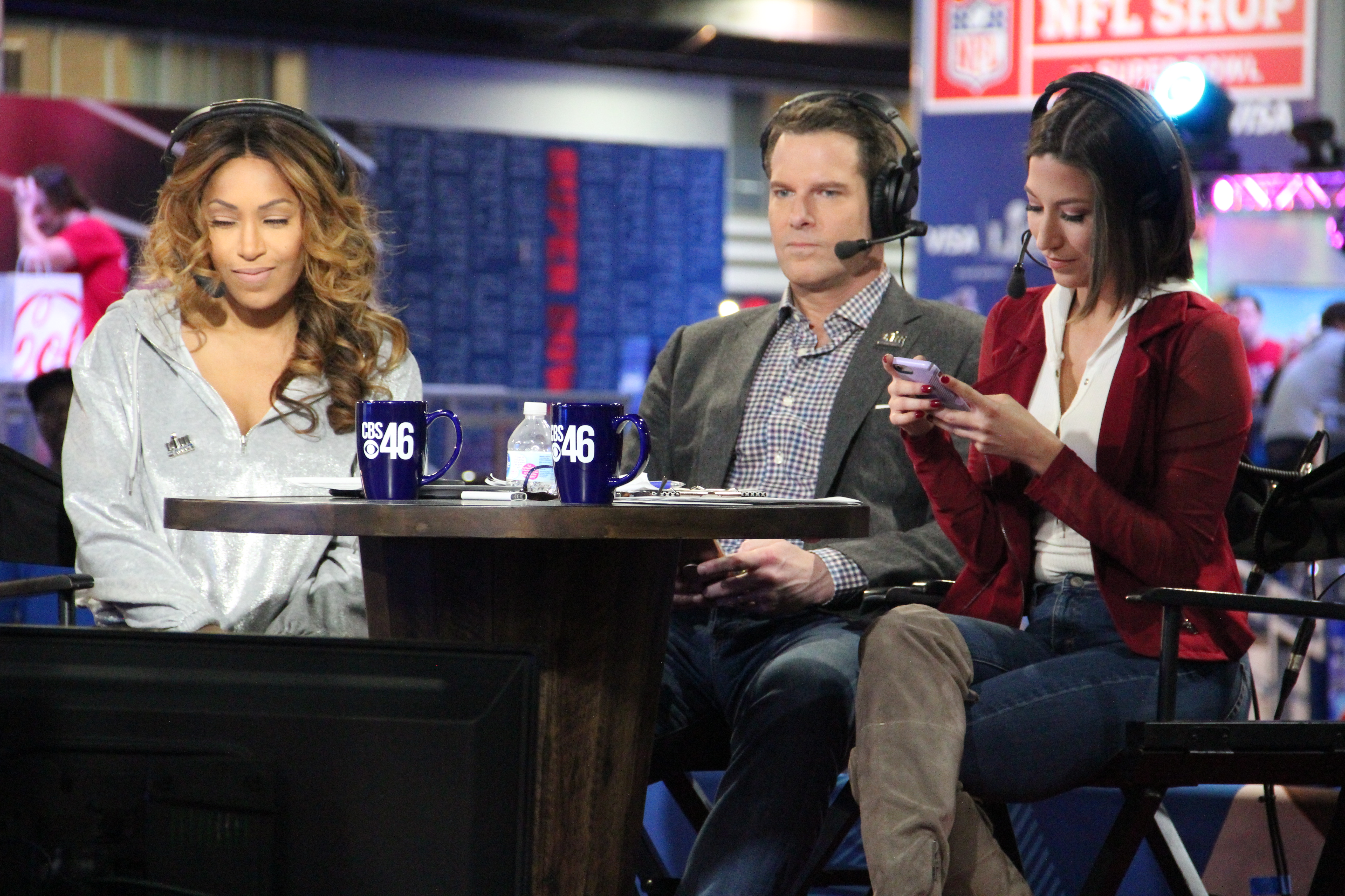 CBS 46 (WGCL-TV) Anchors, Jan 2019